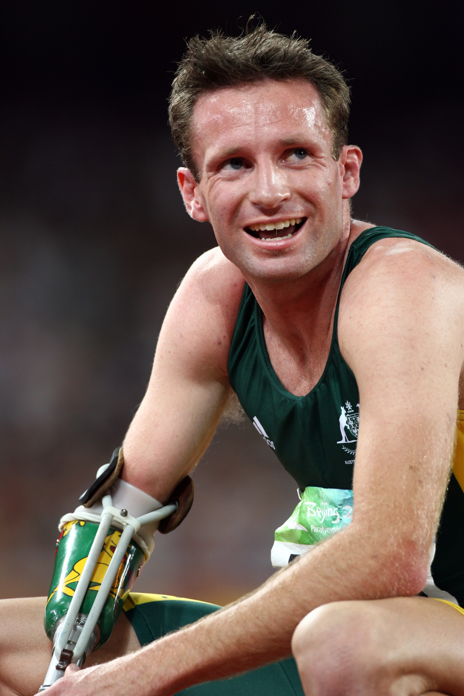 Australian athlete Heath Francis after winning the men's T46 400m final at the Beijing 2008 Paralympic Games